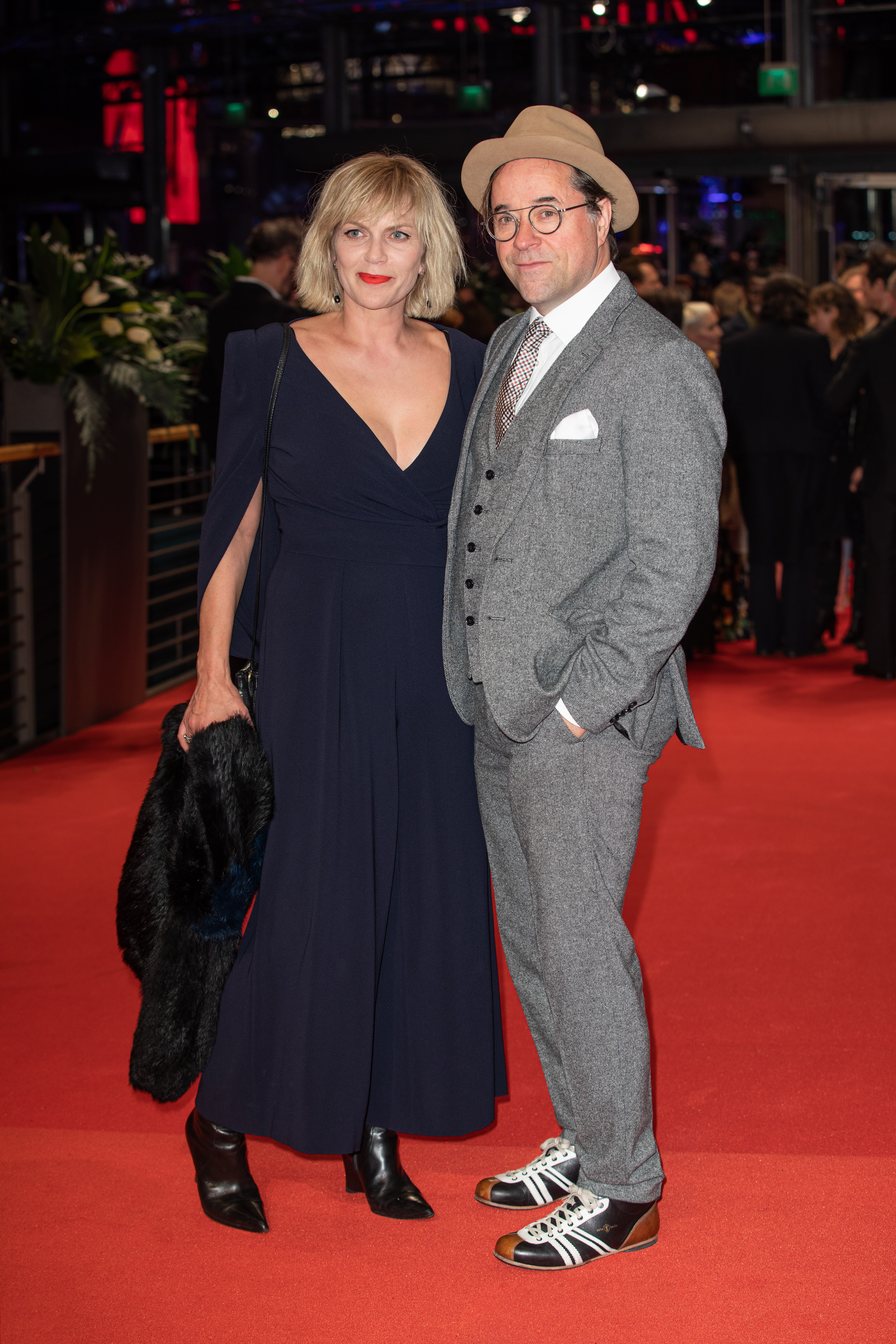 Anna Loos and Jan Josef Liefers on the red carpet of the Berlinale 2020